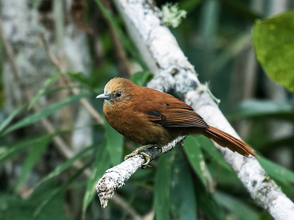 Russet-mantled Softtail from San Lorenzo, Amazonas, Peru.